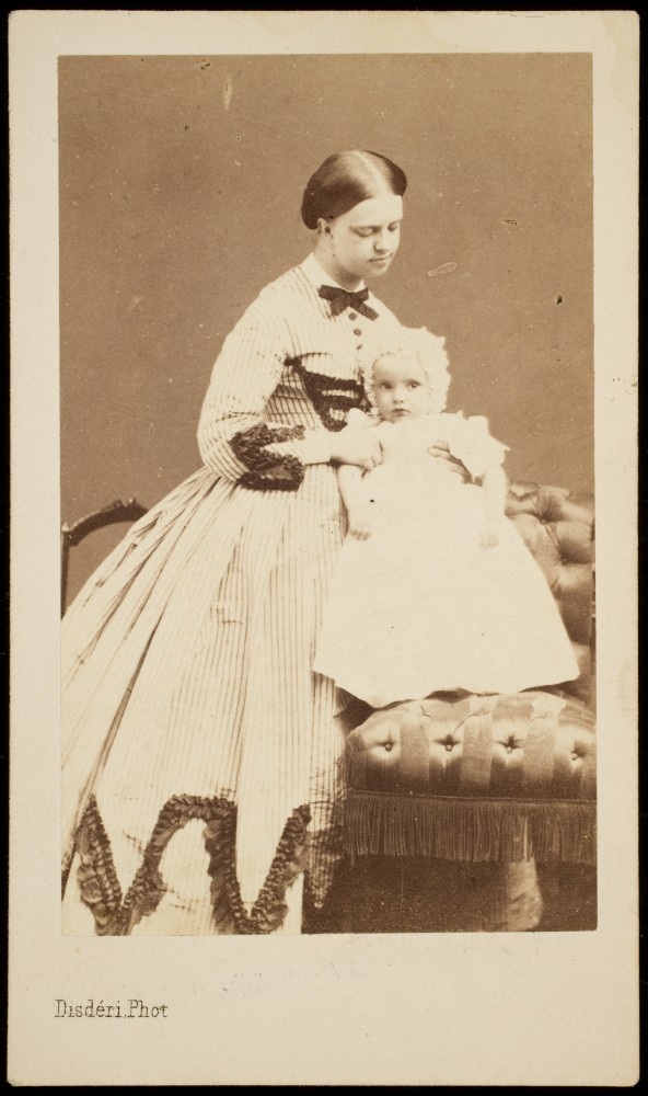 Accession Number: 1979:0896:0002 Maker: André-Adolphe-Eugène Disdéri Title: Princess Clotilde and baby (probably Napolèon Victor Bonaparte, born 1862) Date: ca. 1862 Medium: albumen print, carte de visite Dimensions: 8.6 x 5.3 cm. George Eastman House Collection